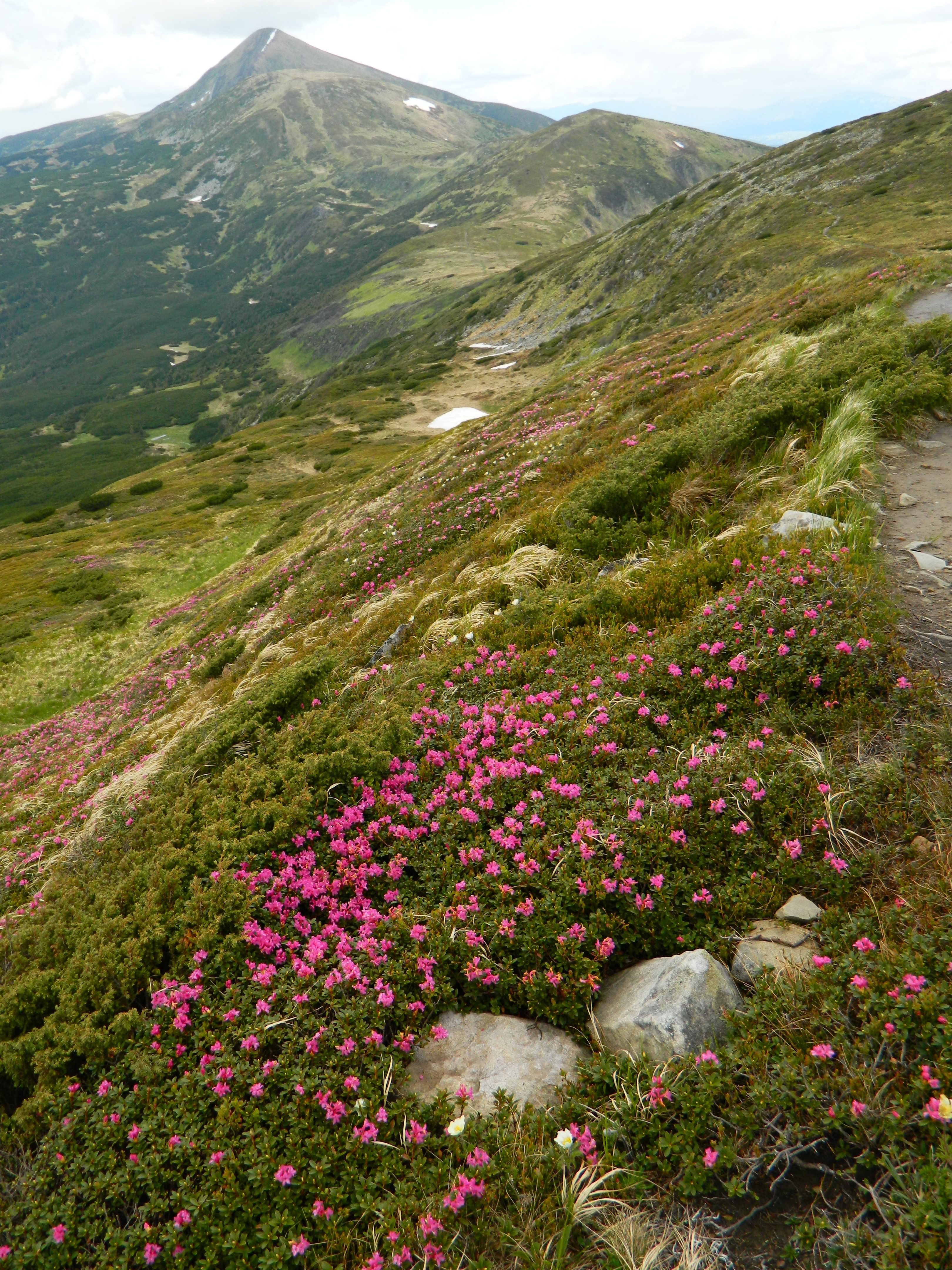 Rhododendron myrtifolium on Chornohora range, Pozhyzhevska mountain, Ukrainian Carpathians. In background seen mountains Hoverla and Breskul